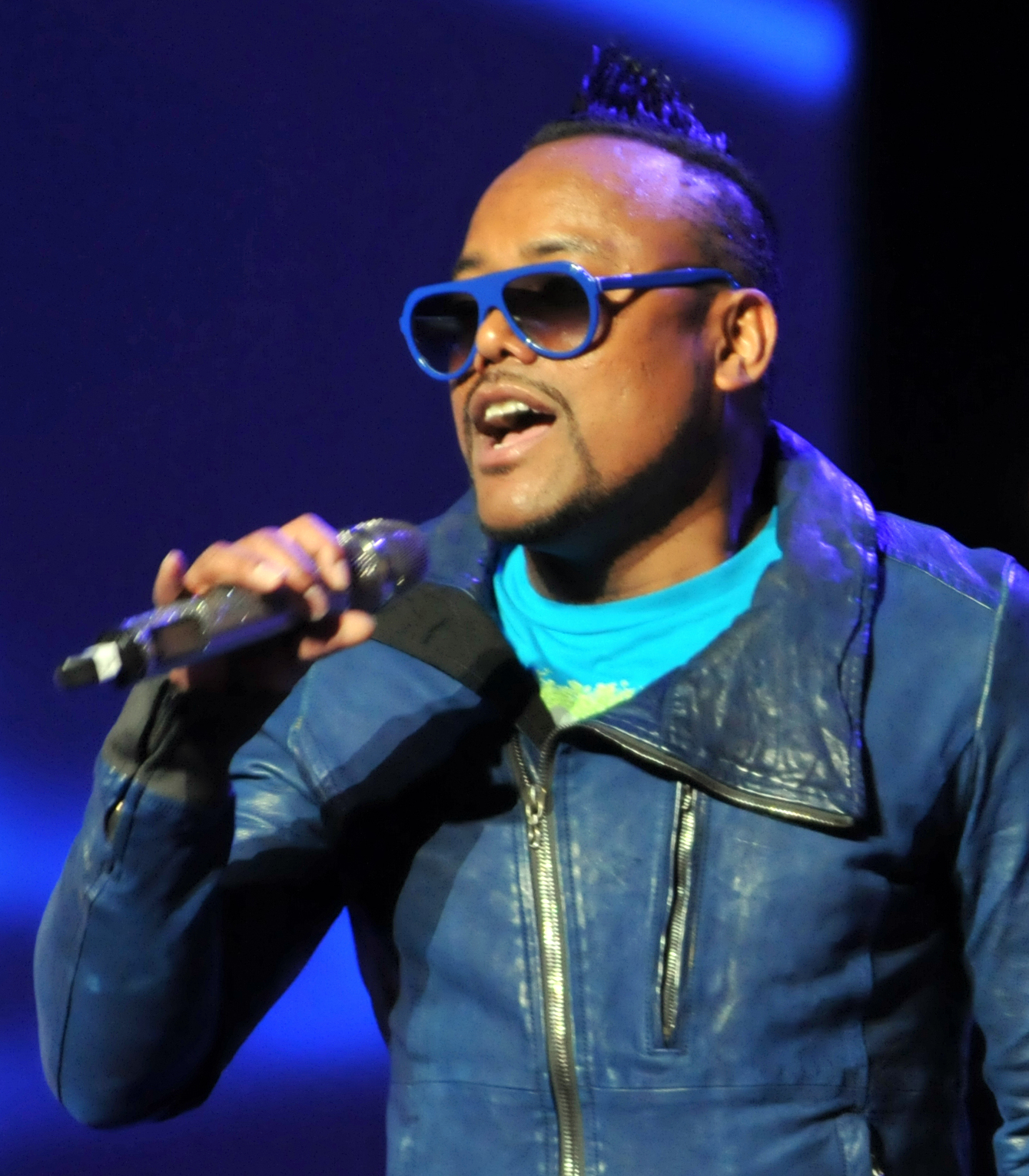 apl.de.ap at the Walmart Shareholders Meeting 2011.